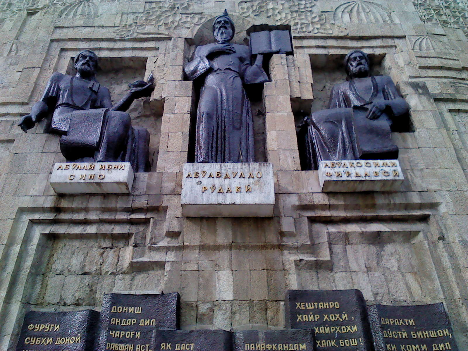 Tajik Writers Union building, Dushanbe